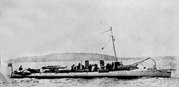 Ottoman torpedo boat Sultan Hisar